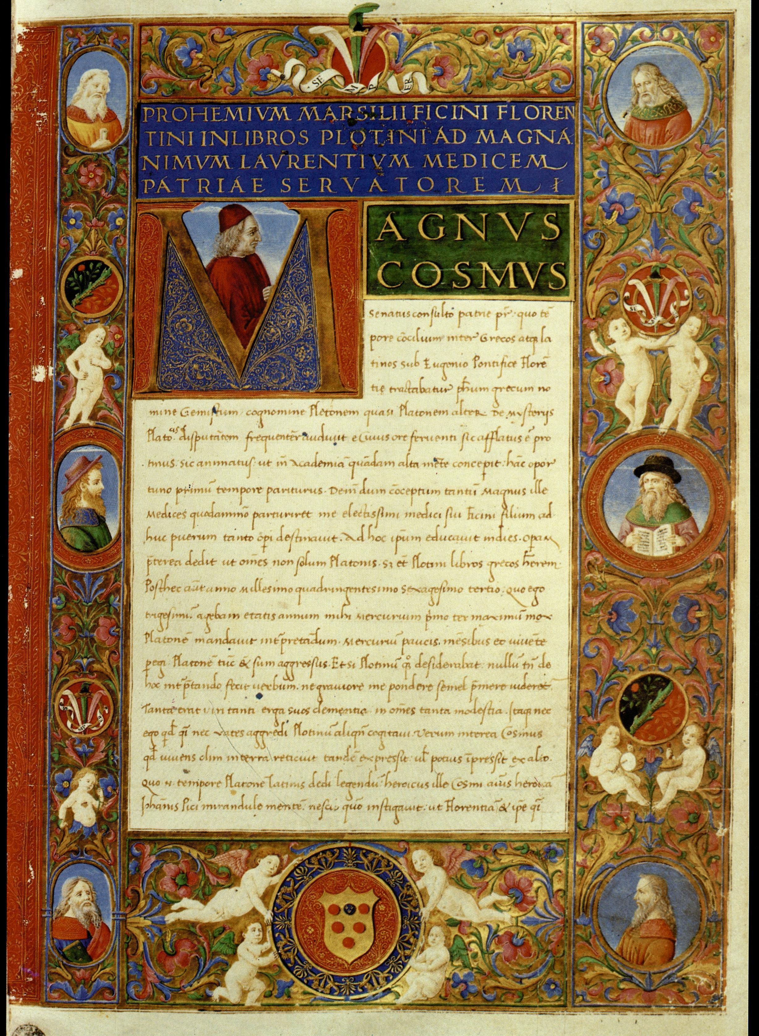 The beginning of Ficino’s preface to his Latin translation of Plotinus’ „Enneads“, dedicated to Lorenzo il Magnifico, in the manuscript Florence, Biblioteca Medicea Laurenziana, Plut. 82.10, fol. 3r.